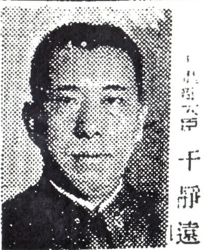 Yu Jingyuan (Yü Ching-yüan) (1898 - 1969)